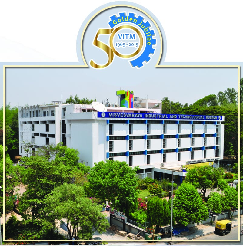 Visvesvaraya Industrial and Technological Museum